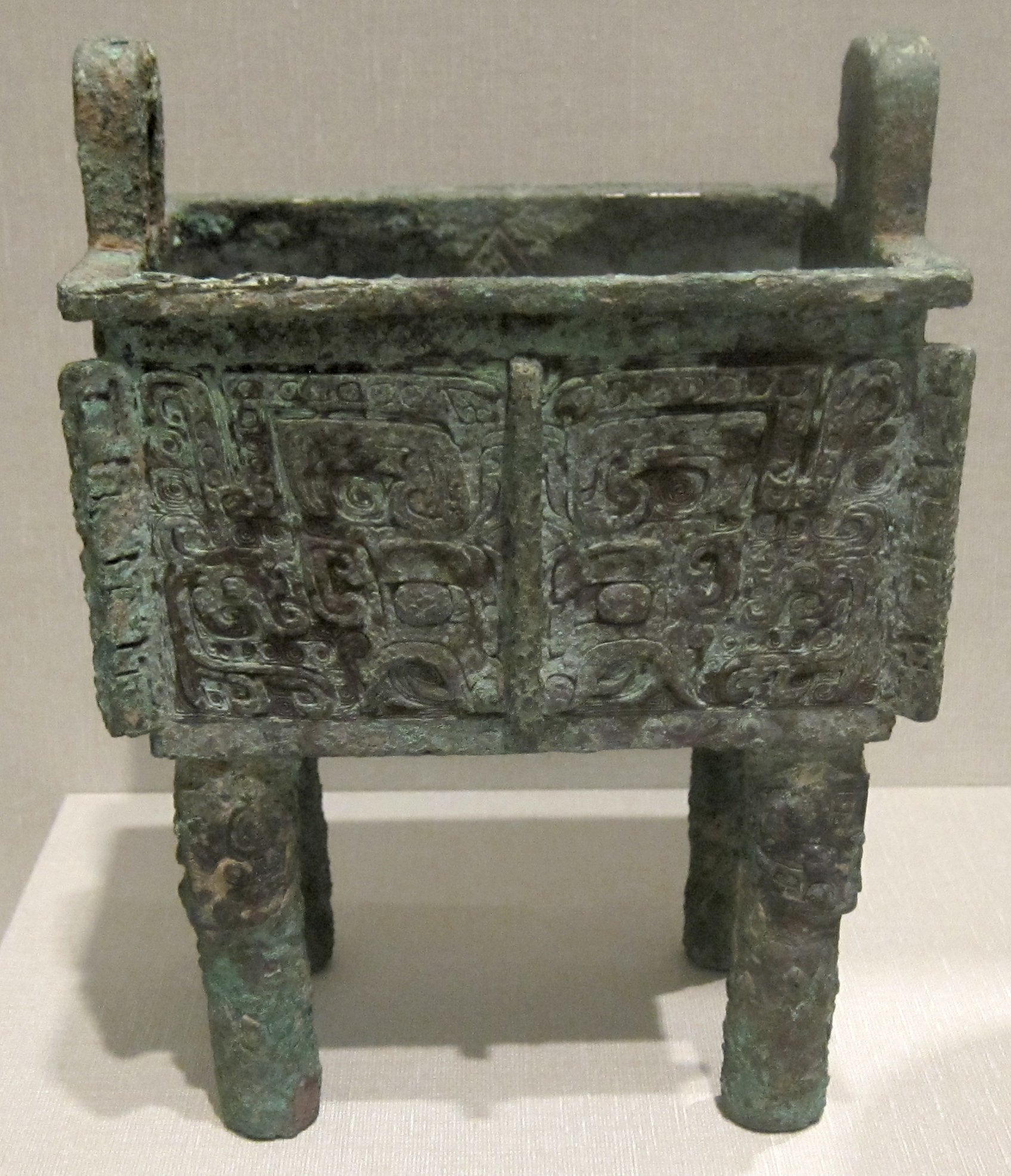 Vessel (fangding), China, Shang dynasty, bronze, Honolulu Academy of Arts